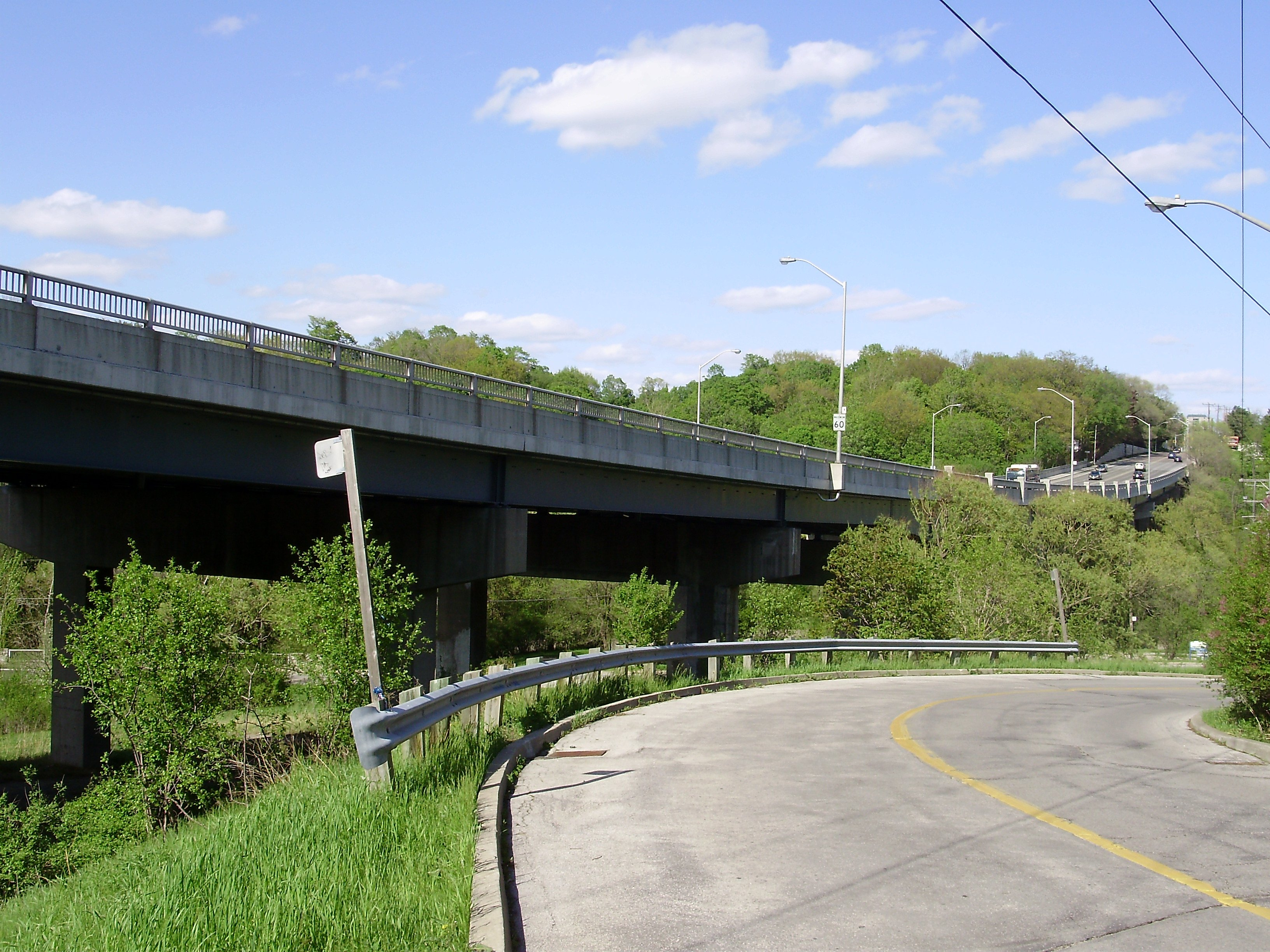 The Sheppard Avenue Bridge spans the Don River Valley and Earl Bales Park, photographed from Don River Boulevard, in North York, Ontario, Canada.